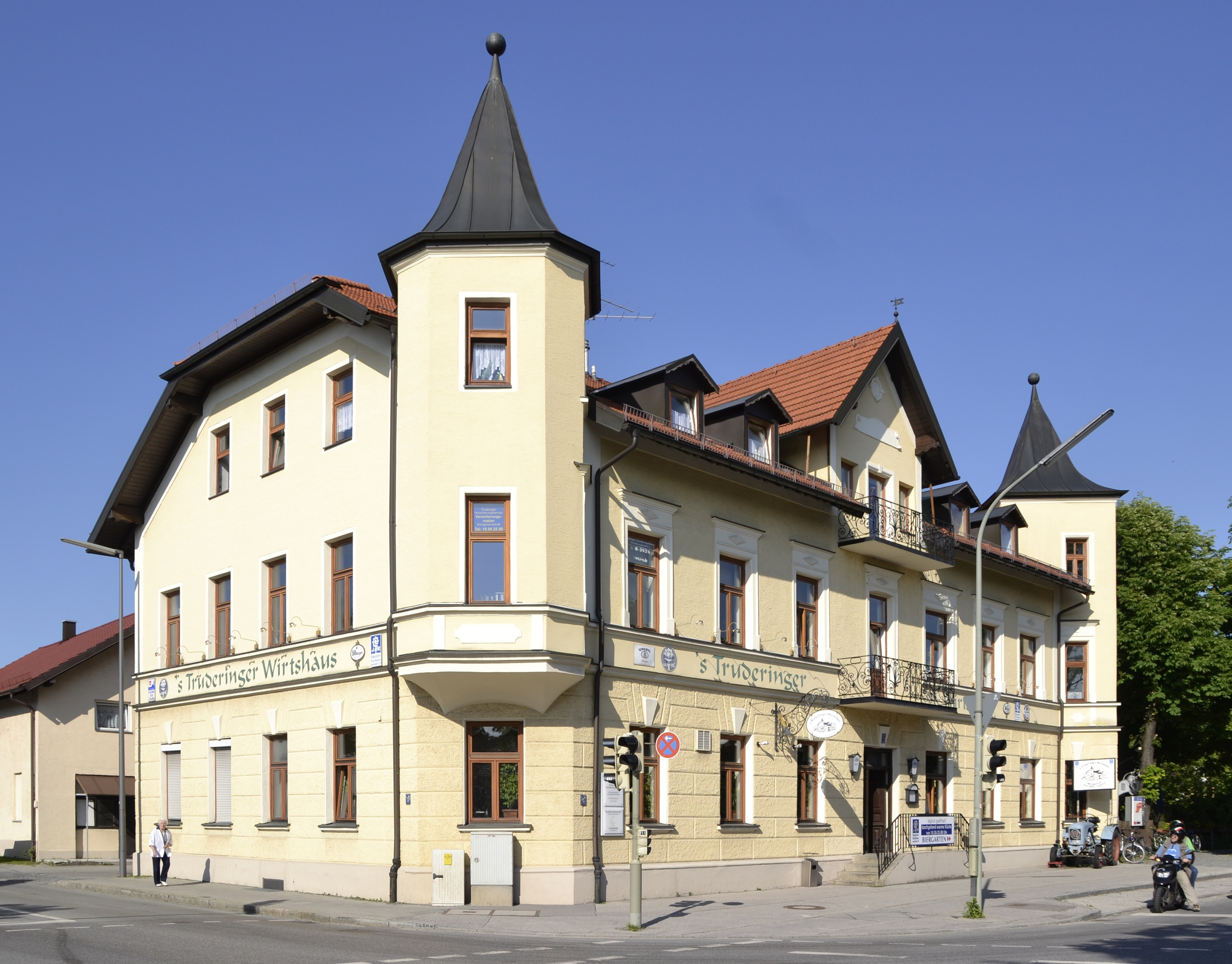 The Cultural heritage monument Gasthof Göttler in Trudering, Munich.